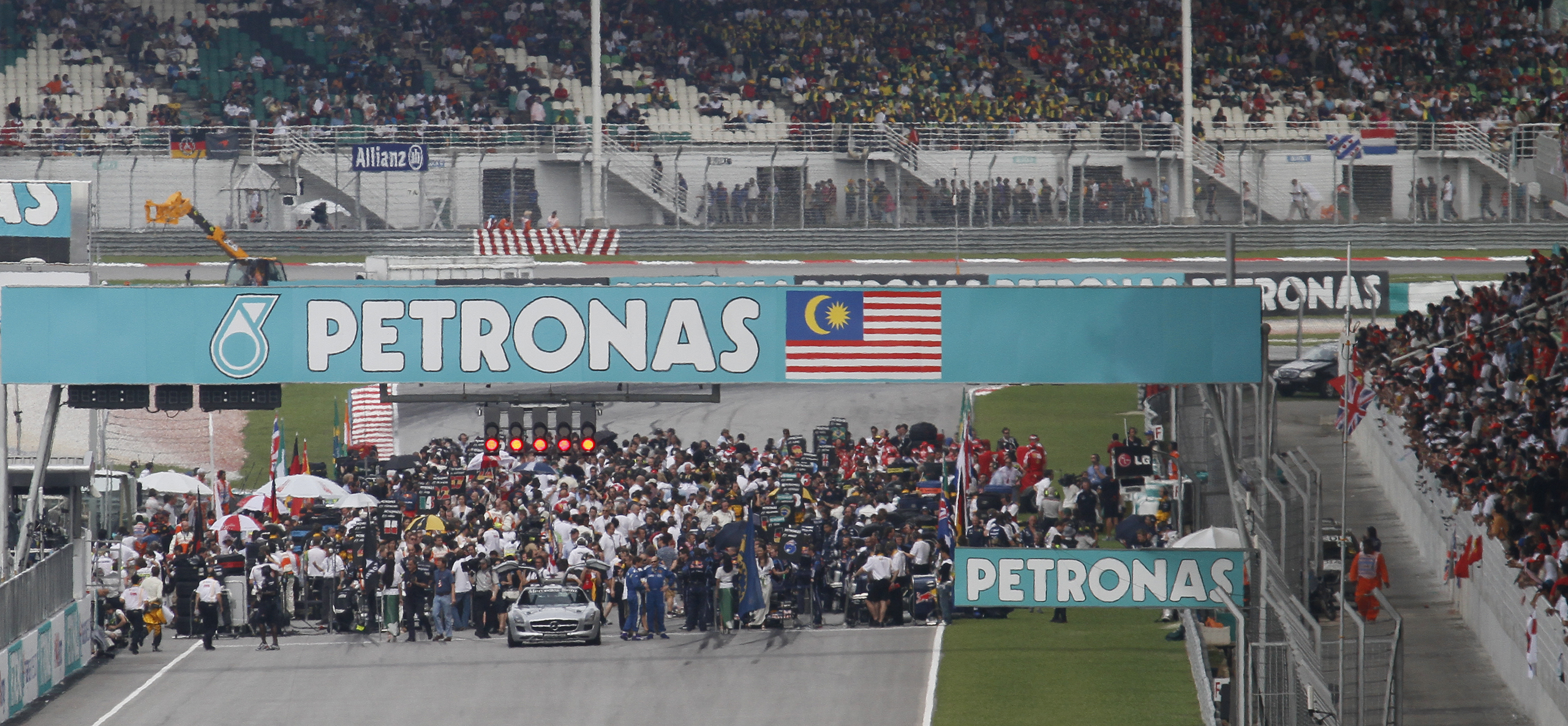 Formula One 2010 Rd.3 Malaysian GP: starting grid